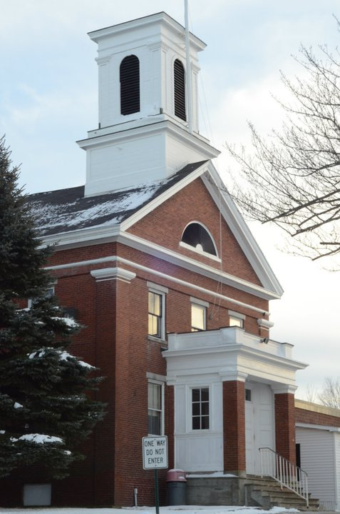 Image of the Hampden Academy Bell Tower I took in January 2011